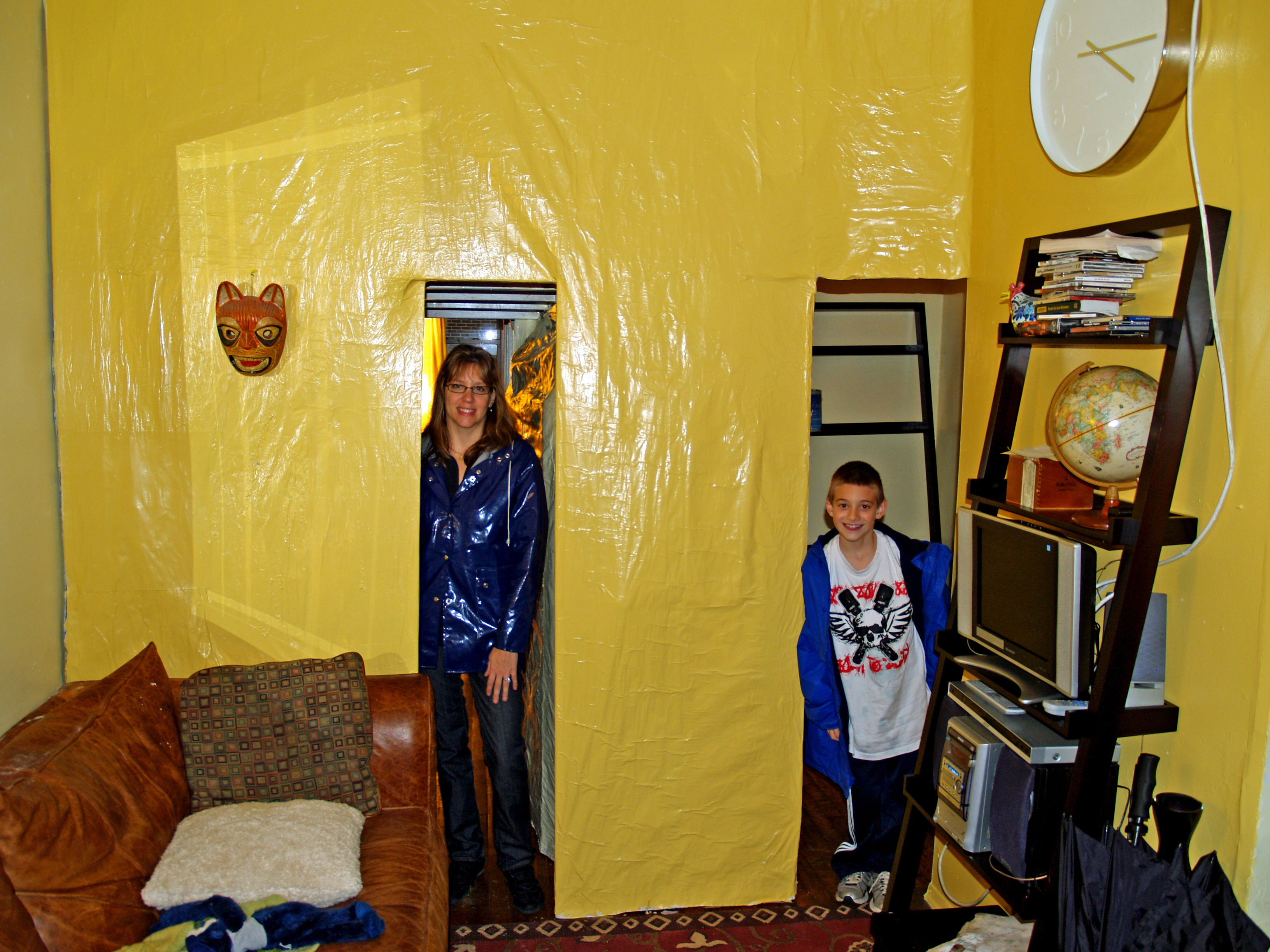 The building of a room out of a Paper mache in the East Village of New York City.